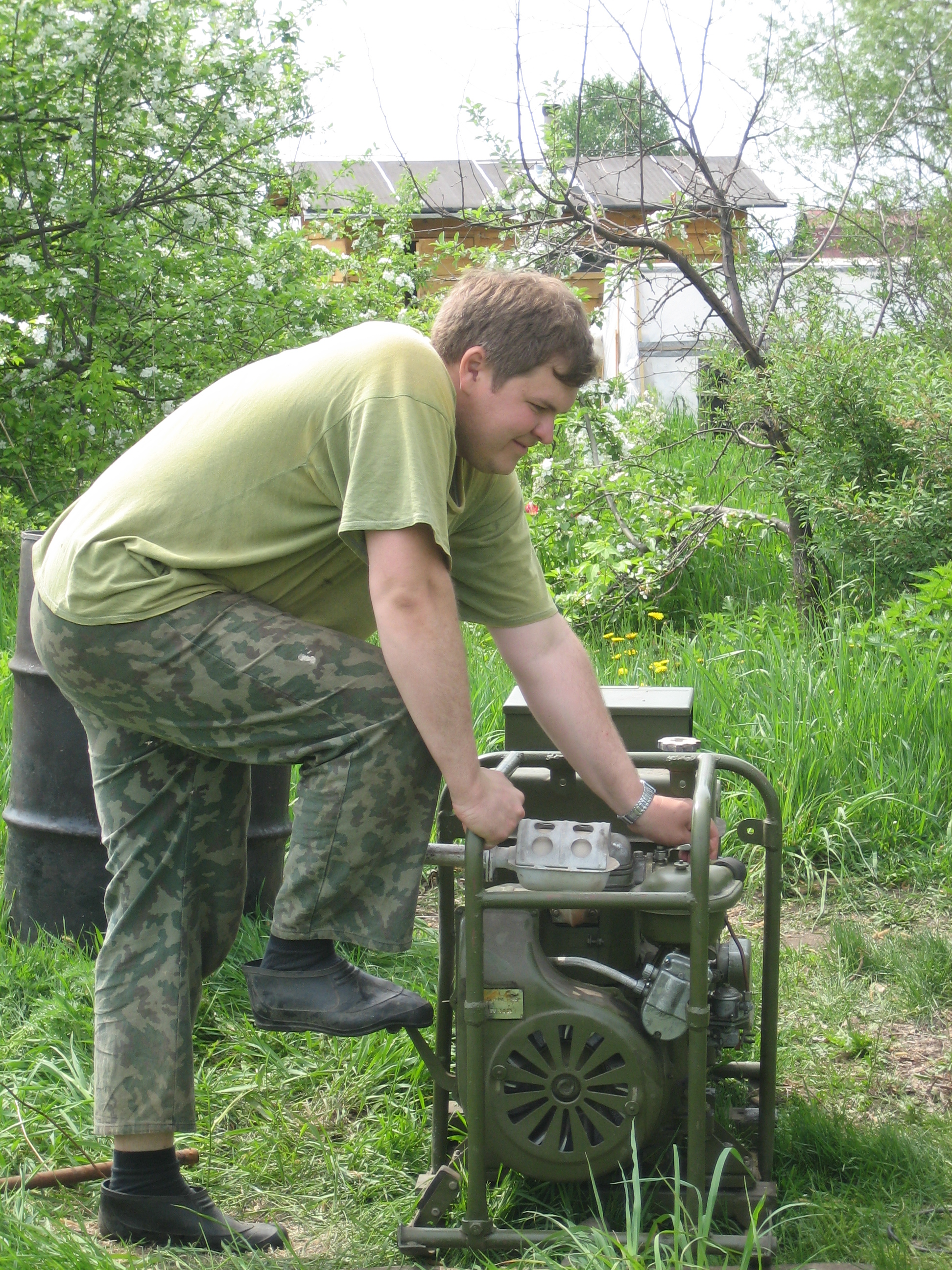 Starting gasoline engine using kickstarter